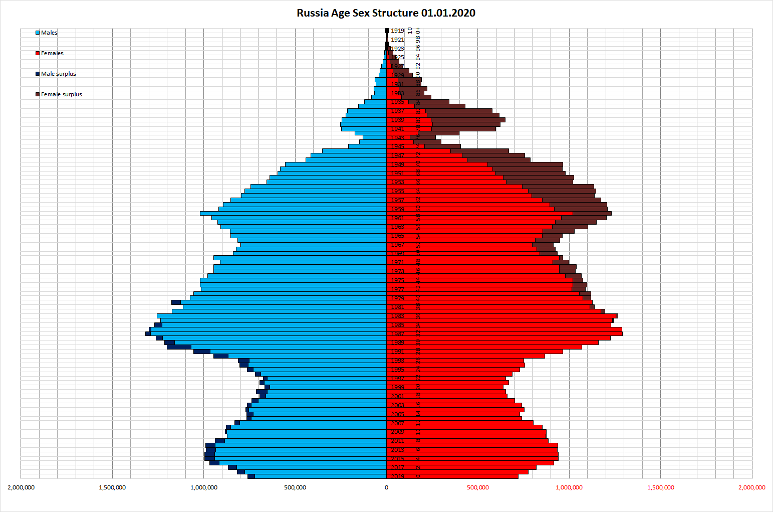 Demographic pyramid of Russia on January 1st, 2020